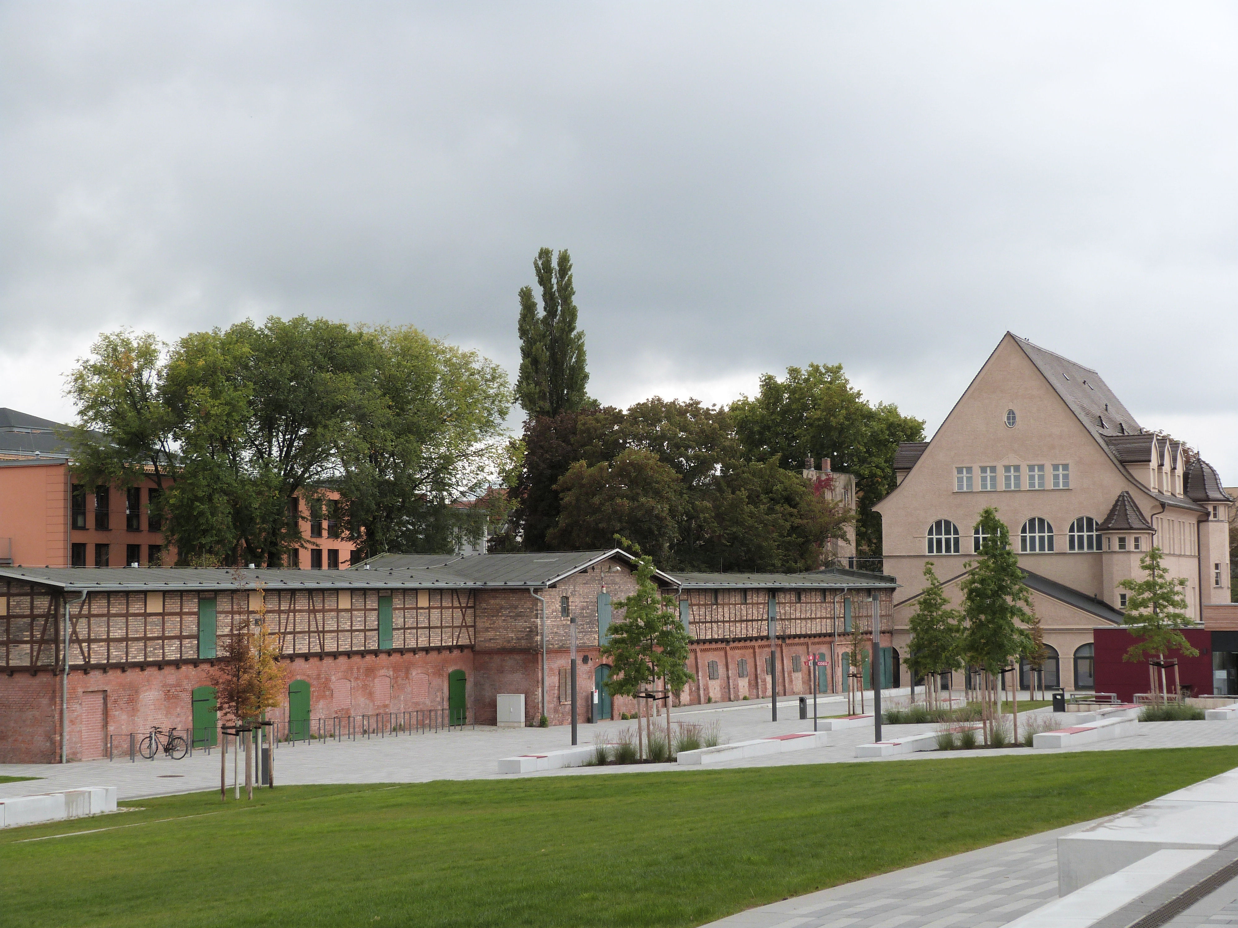 Former cattle stall (1884), Julius Kühn Museum of the Faculty of Agriculture on the Steintor campus, Martin Luther University Halle-Wittenberg